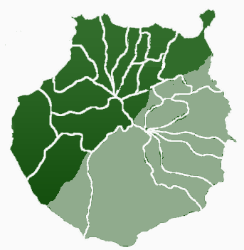 Guanartemato de Galdar